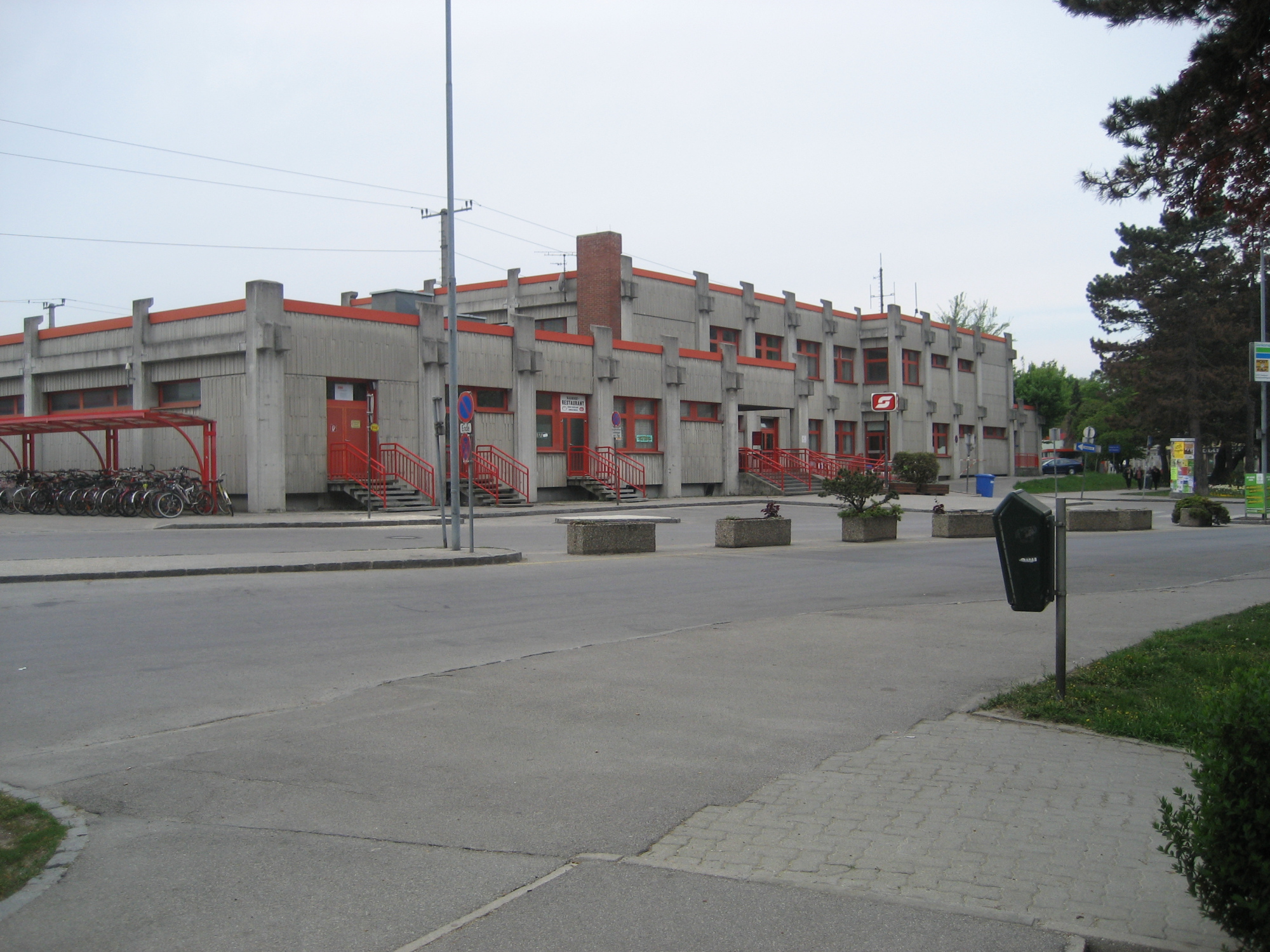 train station in Stockerau, Lower Austria